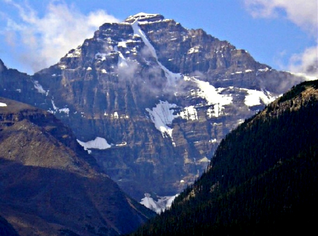 Mount Cromwell's north face seen from the Icefields Parkway.